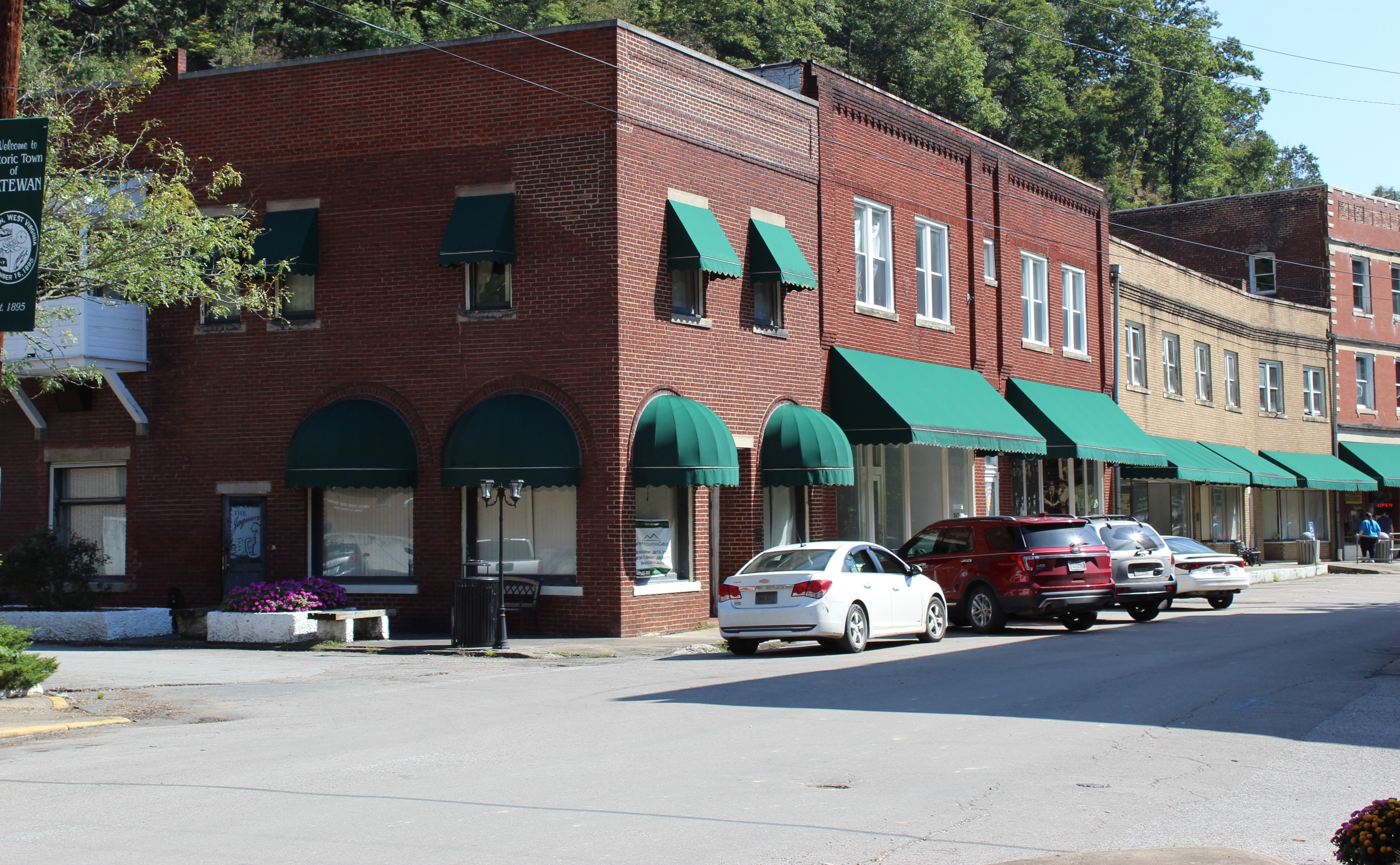 Matewan, West Virginia Historical District in 2018